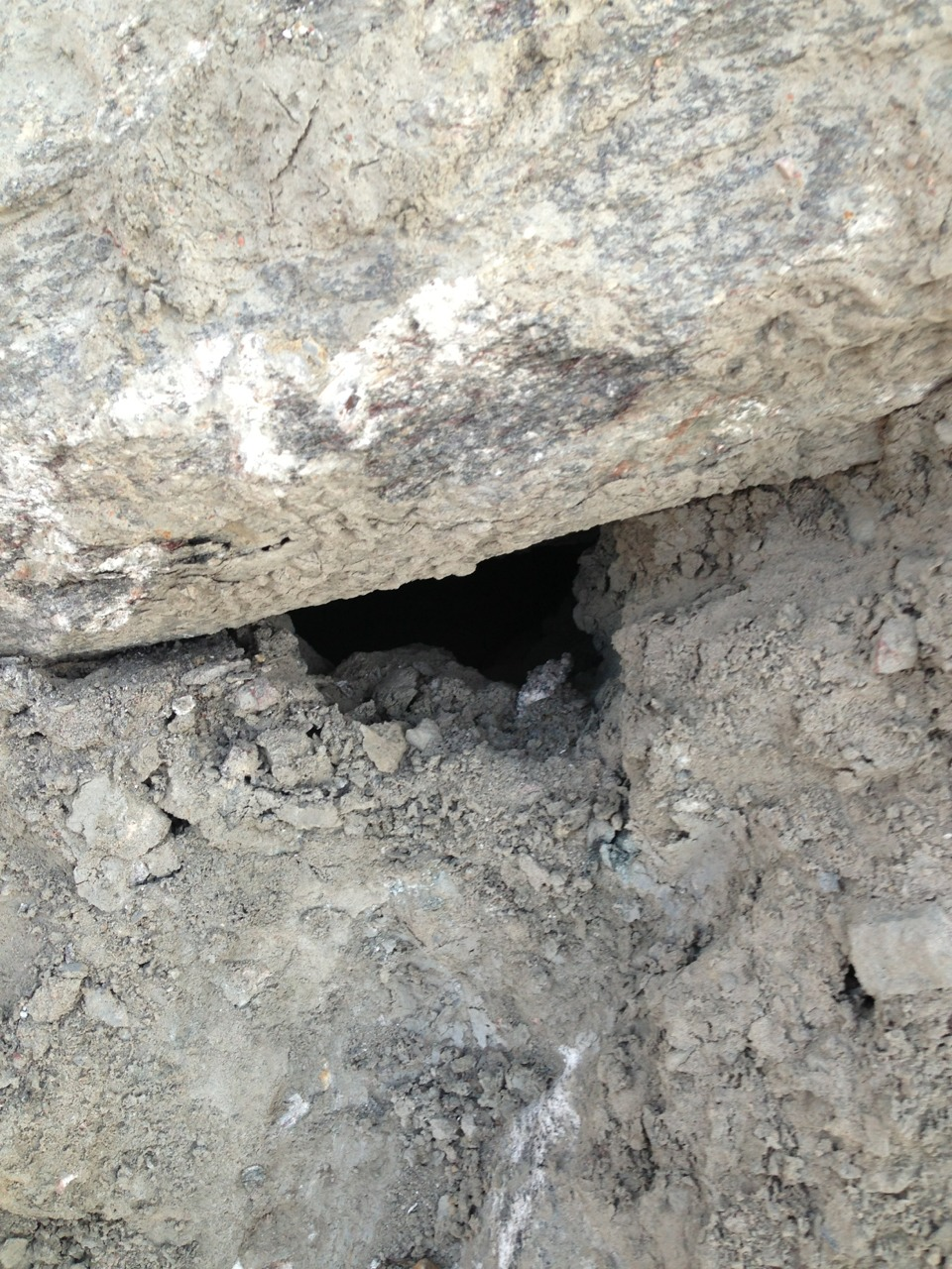 An opening under a rock.